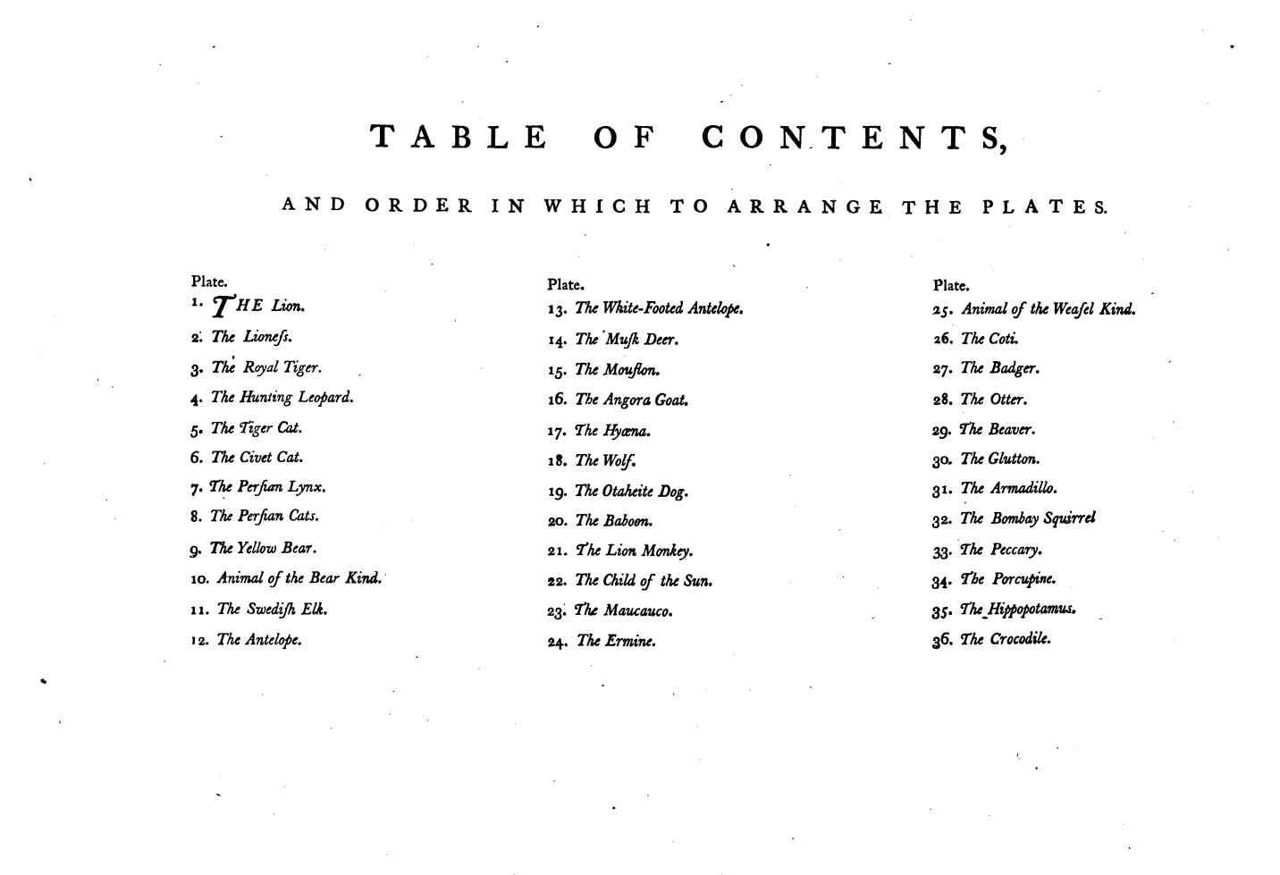 Illustration from Charles Catton the Younger Animals drawn from nature and engraved in aqua-tinta